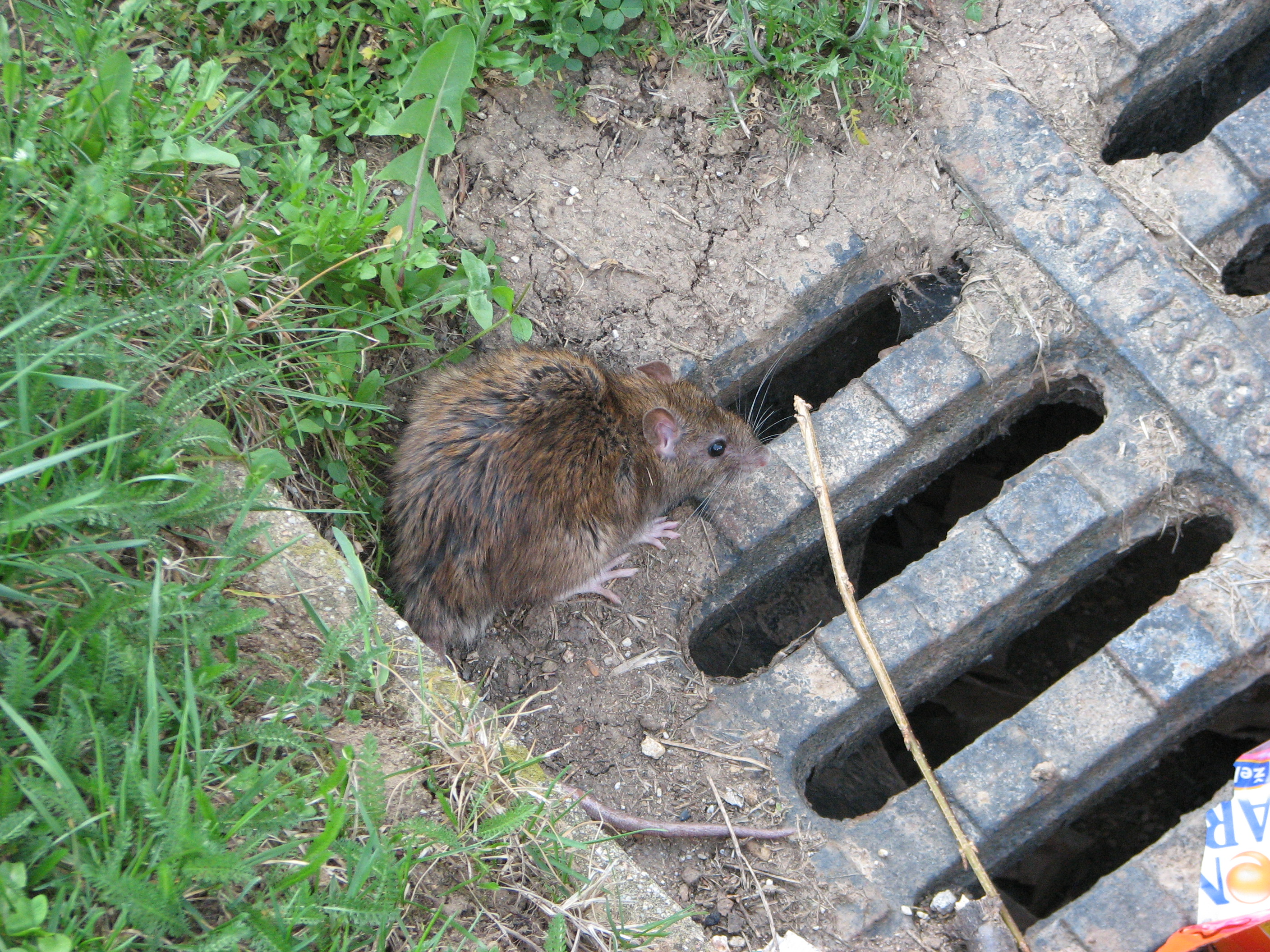 A common rat sitting on a drain